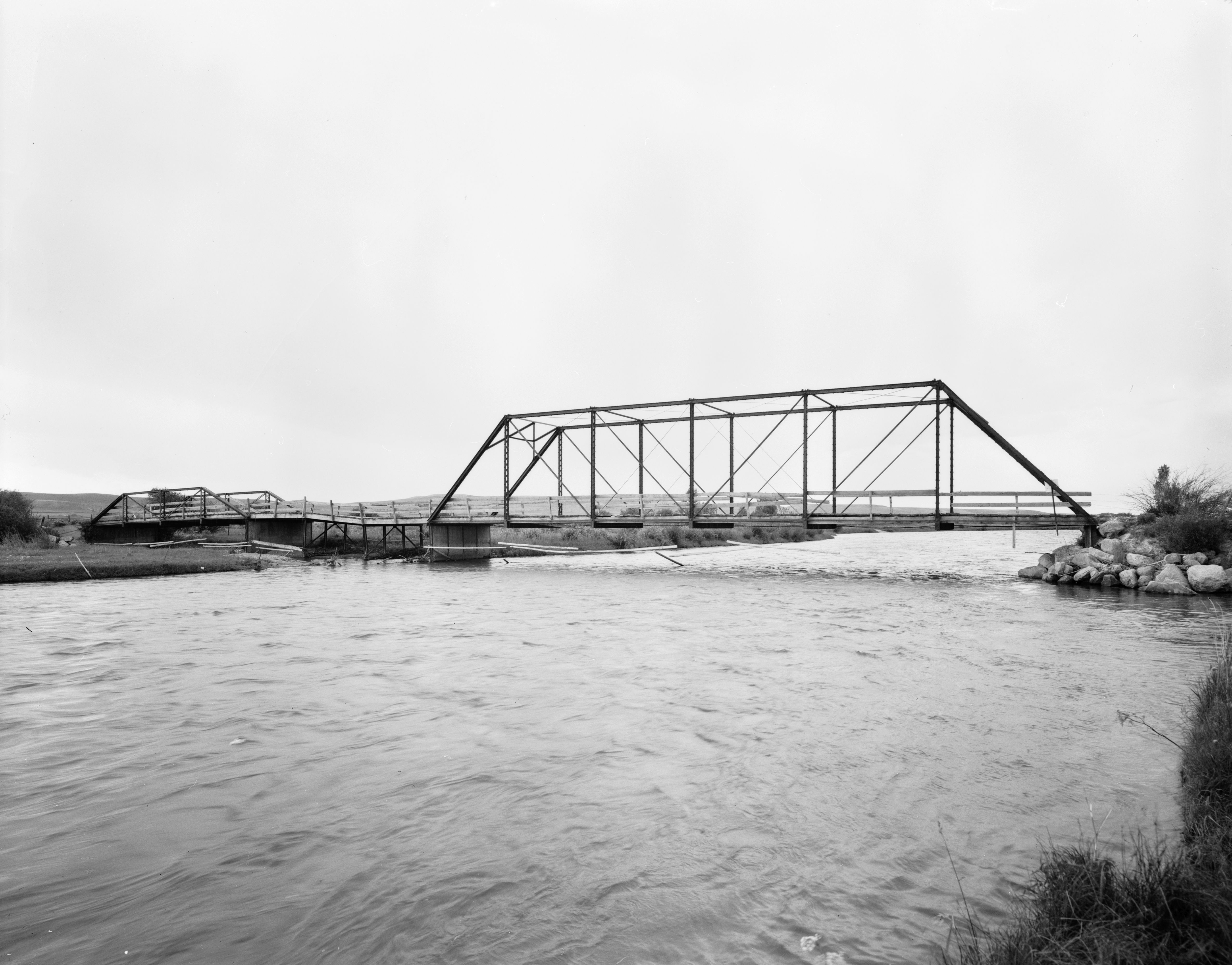 Southern side of the ENP Bridge over Green River, which carries County Road CN23-145 over the Green River near Daniel in Sublette County, Wyoming, United States. Built in 1905, this Pratt truss bridge (combining elements of through and pony trusses) is listed on the National Register of Historic Places.